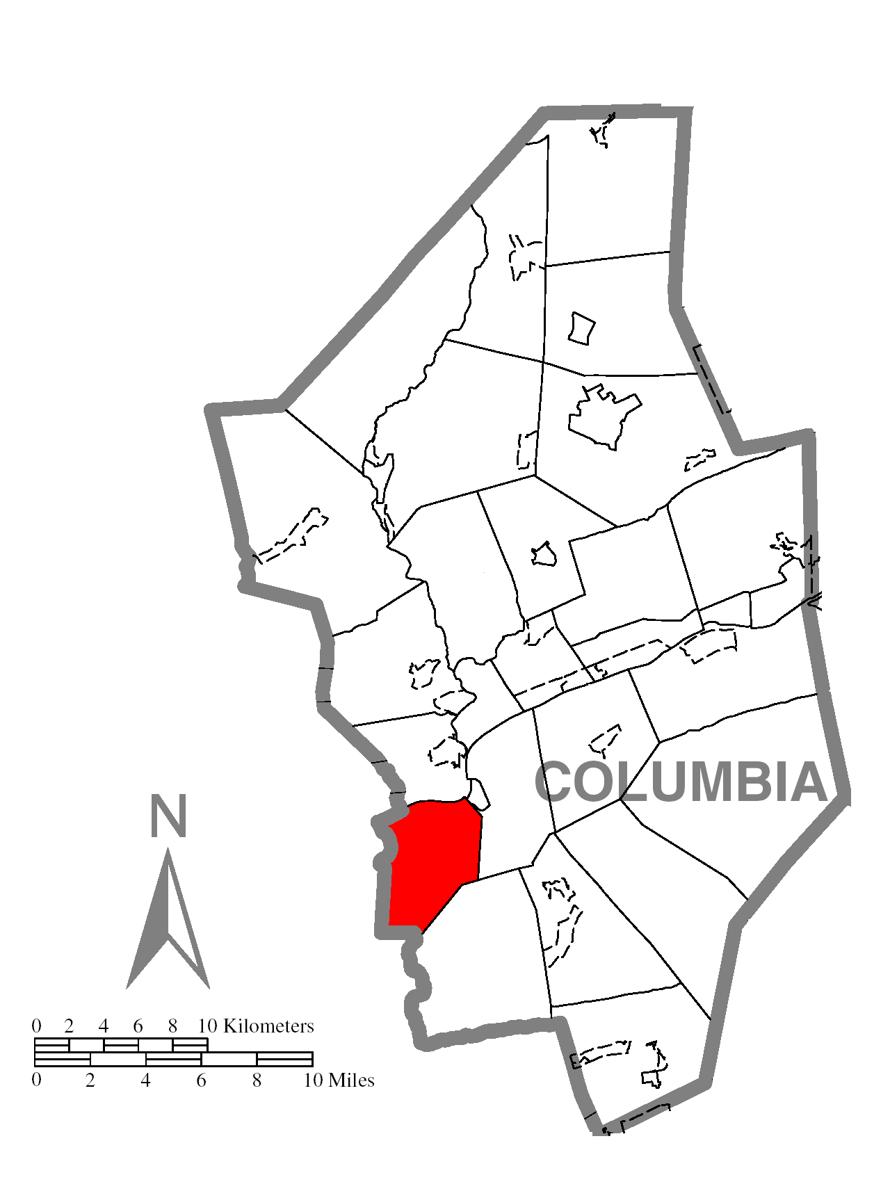 A map of Columbia County showing Franklin Township, Pennsylvania (alternate) highlighted on the map.